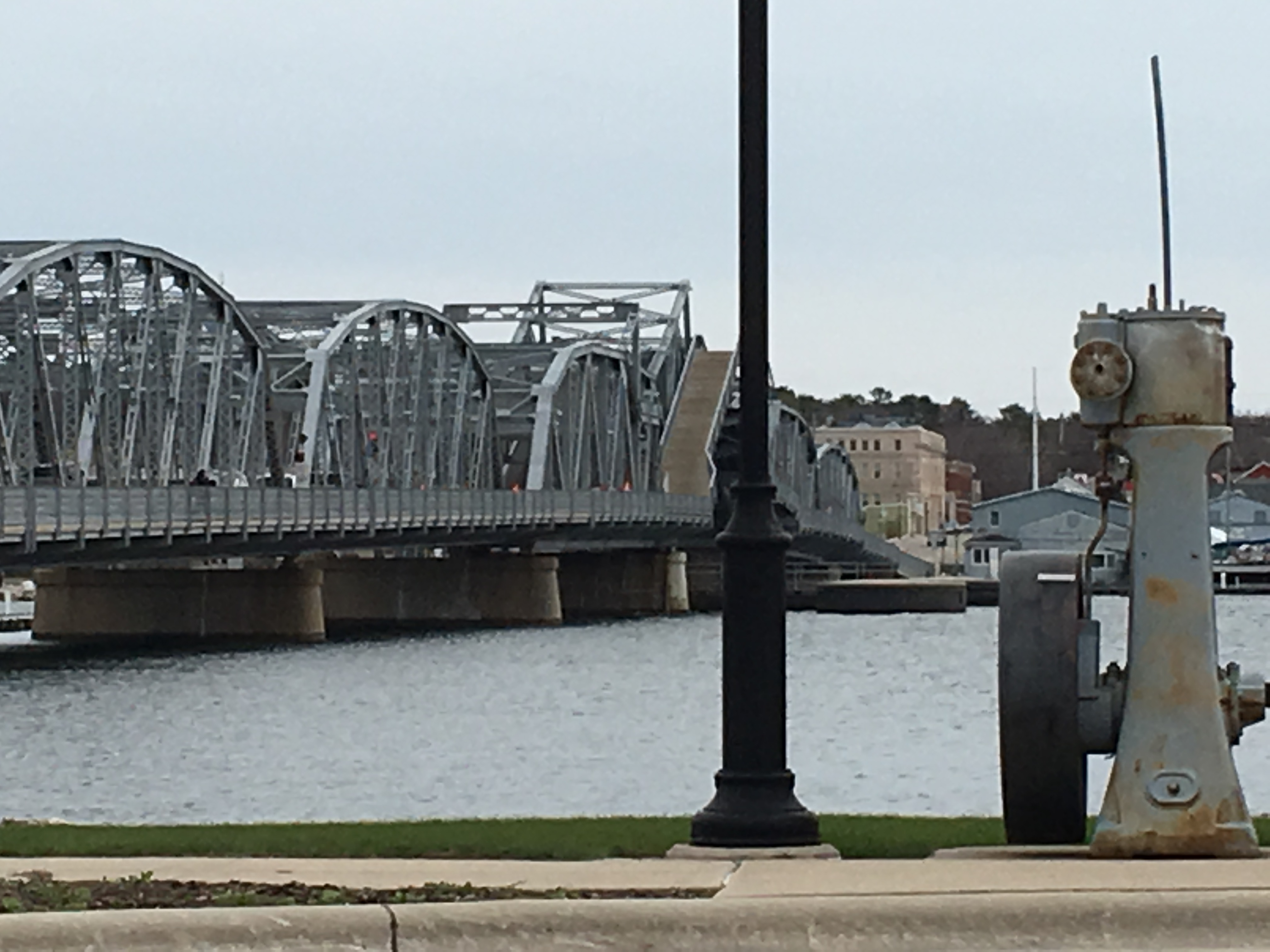 The Sturgeon Bay Bridge is a 1931 Bascule Bridge in the eponymous city that formerly carried Highway 42/57, and now carries their business routes over the bay of Sturgeon Bay. In this photo, this bridge was in open position.